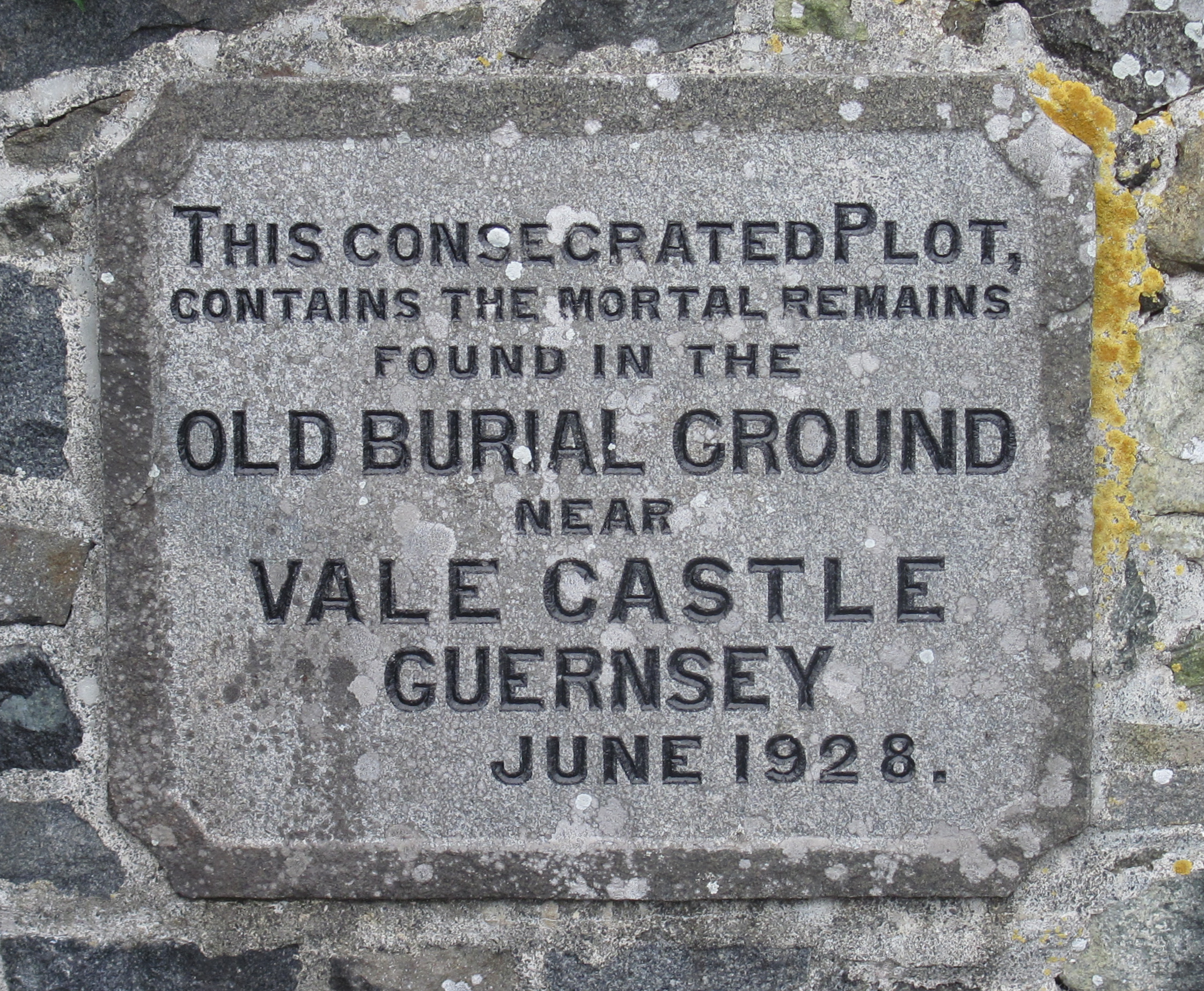 Guernsey, 2 July 2010: plaque old burial ground June 1928